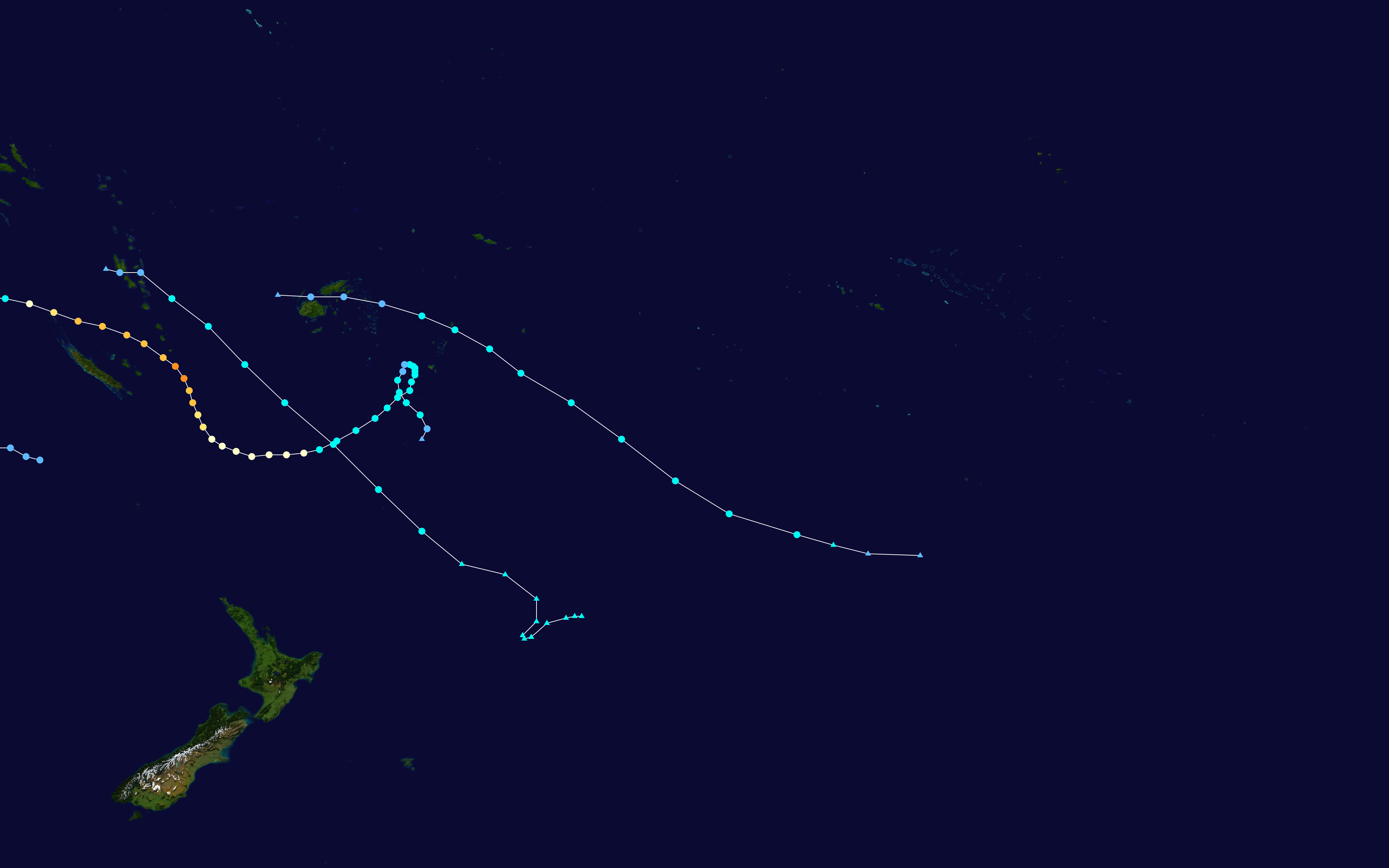 This map shows the tracks of all tropical cyclones in the 2011-12 South Pacific cyclone season. The points show the location of each storm at 6-hour intervals. The colour represents the storm's maximum sustained wind speeds as classified in the Saffir-Simpson Hurricane Scale (see below), and the shape of the data points represent the type of the storm. Saffir–Simpson scale Tropical depression≤38 mph≤62 km/h Category 3111–129 mph178–208 km/h Tropical storm39–73 mph63–118 km/h Category 4130–156 mph209–251 km/h Category 174–95 mph119–153 km/h Category 5≥157 mph≥252 km/h Category 296–110 mph154–177 km/h Unknown Storm type Tropical cyclone Subtropical cyclone Extratropical cyclone / Remnant low / Tropical disturbance / Monsoon depression